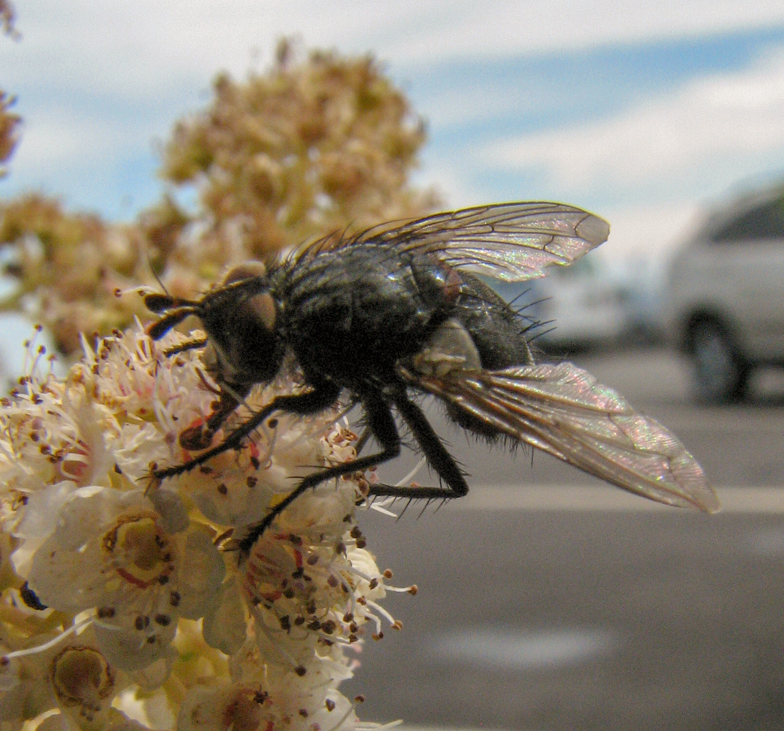 Tachinid fly, Panzeria, on meadowsweet (Spiraea latifolia). Size: 7-10 mm. Cadillac Mountain, Acadia National Park, Hancock County, Maine, USA. 44.3526° N, 68.2251°.